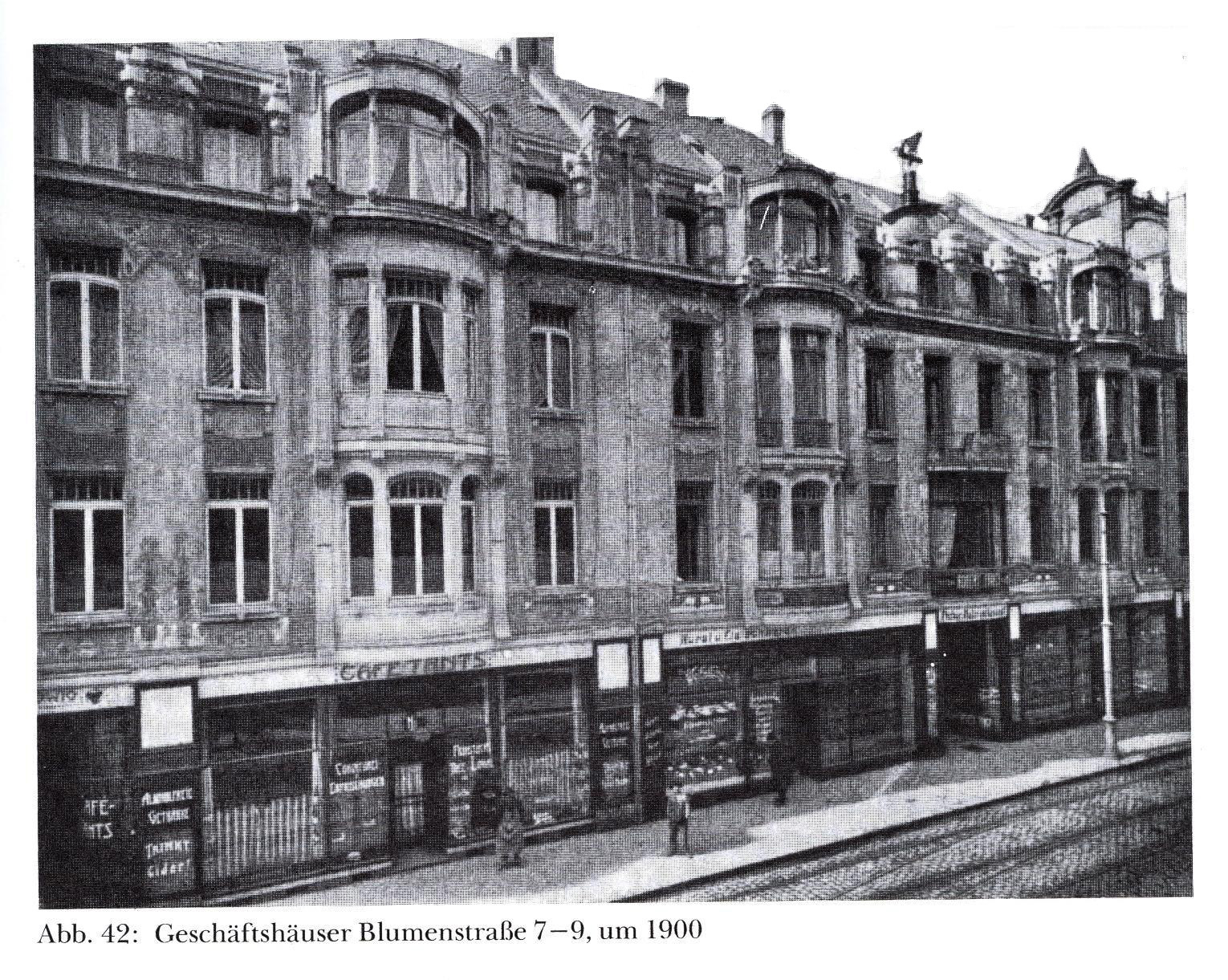 Düsseldorf, Geschäftshäuser Blumenstraße 7 bis 9, um 1900 (Peter Hüttenberger - Die Industrie- und Verwaltungsstadt (20. Jahrhundert) Düsseldorf. Band 3. Schwann, Düsseldorf 1990).JPG